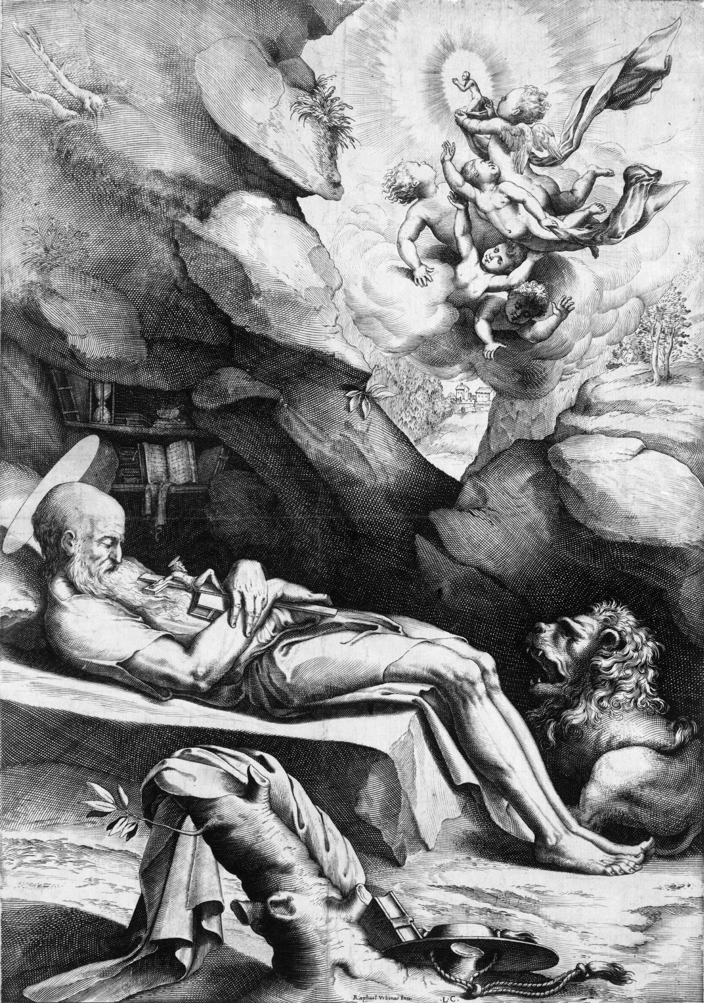 St. Jerome dying in solitude. Engraving, Ciamberlano, Luca (1586-1641), 1614.